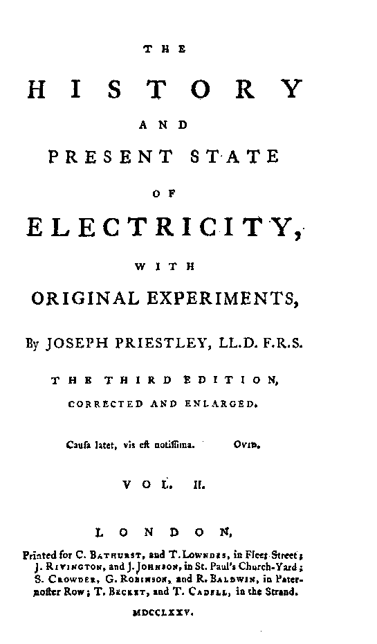 Title page from Joseph Priestley's The History and Present State of Electricity, 3rd edition 1775